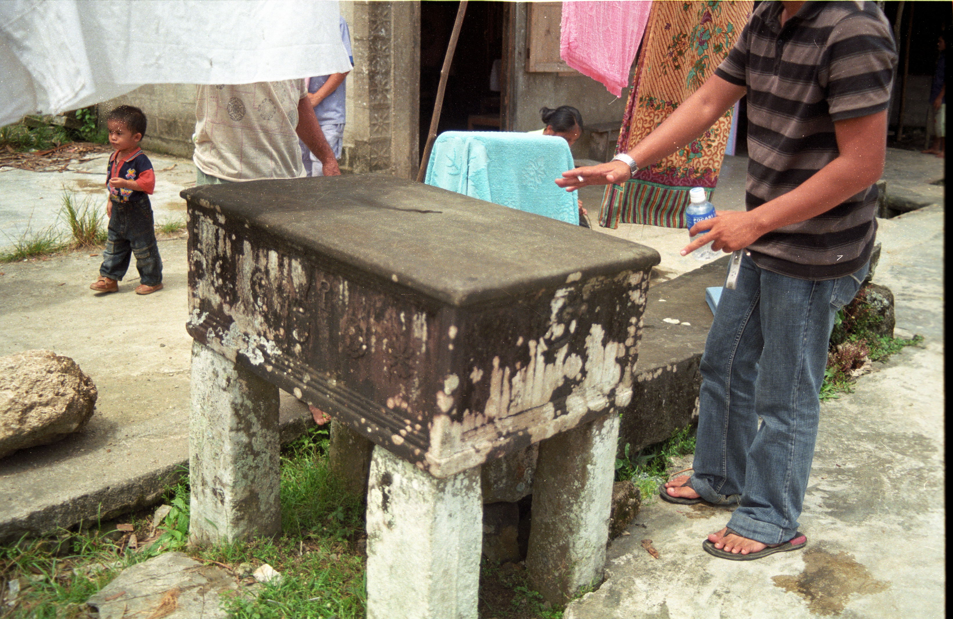 This monument is a stone replica of the chests abandoned in the village of Hili Simaetano by the italian explorer Elio Modigliani, after his defeat by Chief Siwa Sahilu